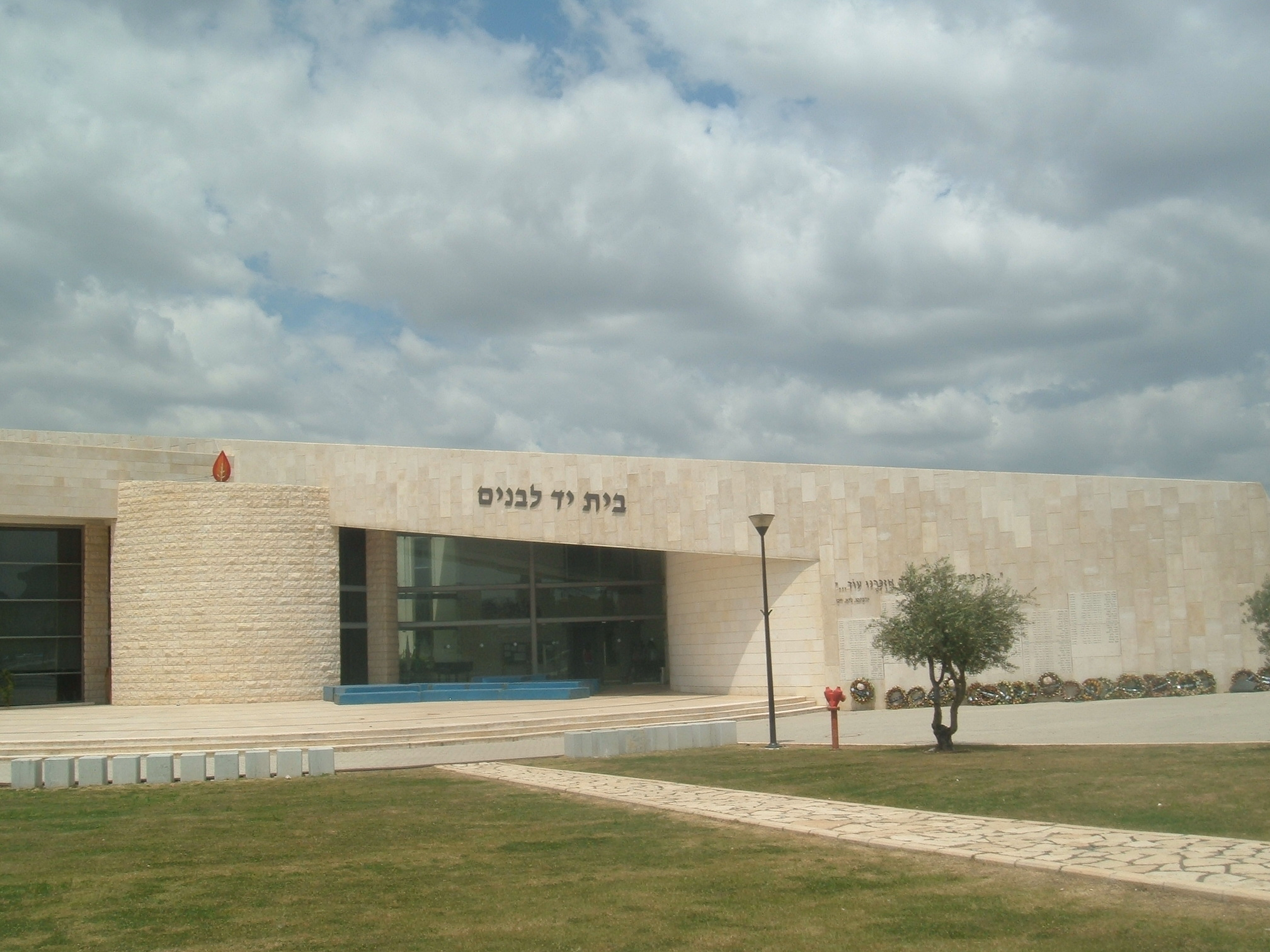 yad labanim house in Afula בית יד לבנים בעפולה